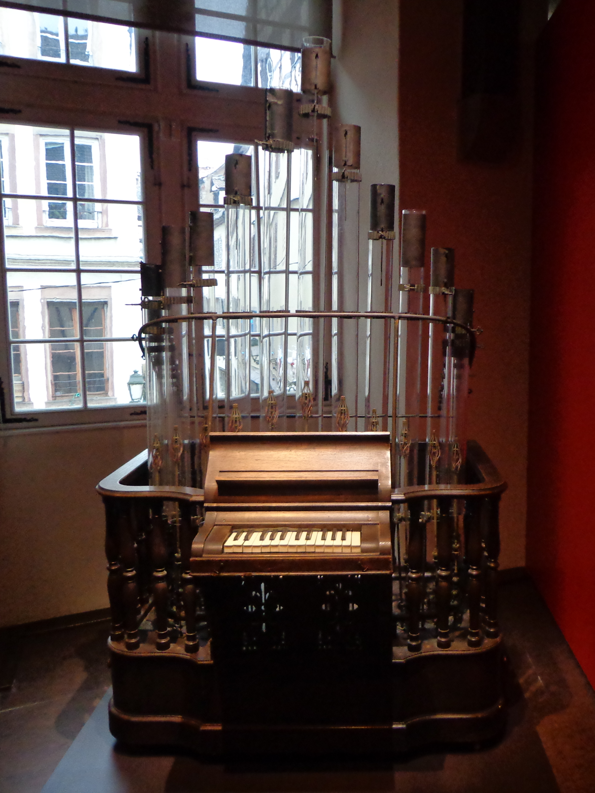 Pyrophone (fire organ) built in 1876 by Frédéric Kastner (1852-1882) from Alsace